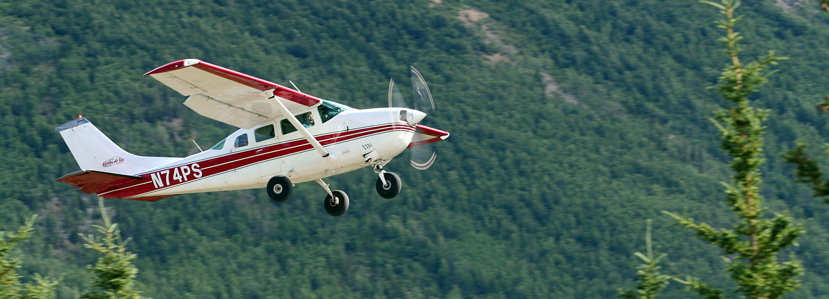 A small plane taking off from the runway next to the train station in Denali National Park, tail number: N74PS; 1973 Cessna U206F